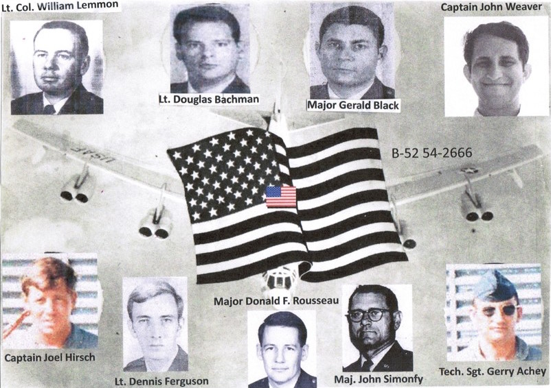 Photo of B-52 C 54-2666 crewmen lost in January 8, 1971 accident in Lake Michigan